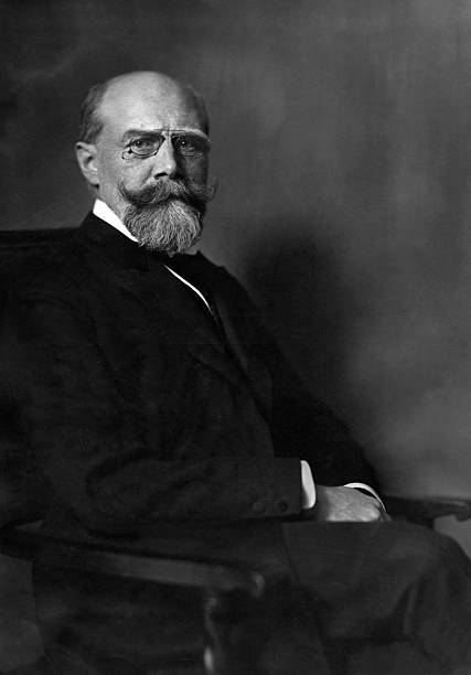 Friedsrich von Brettreich, Bay. Innenminister (1858-1938)